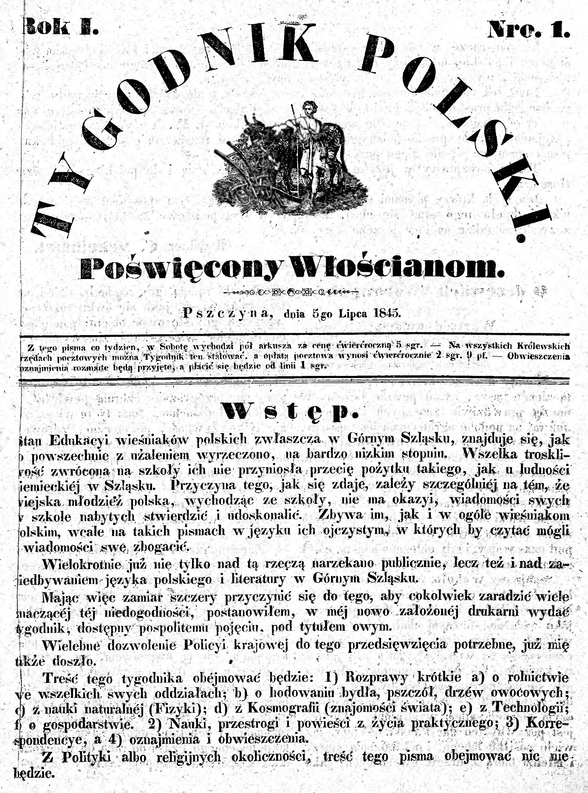 "Tygodnik Polski Poświęcony Włościanom" Pszczyna 1845, Christian Schemmel (1807-1862)